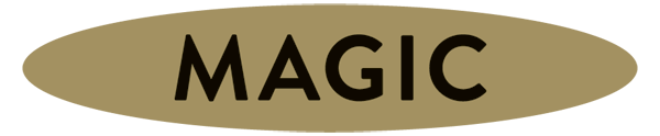 Logo for the company Magic House Sweden AB.